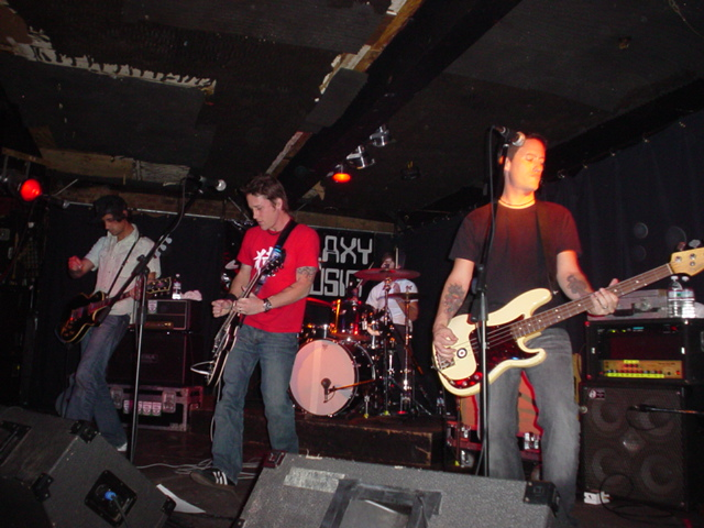 Jackson United en Atlanta